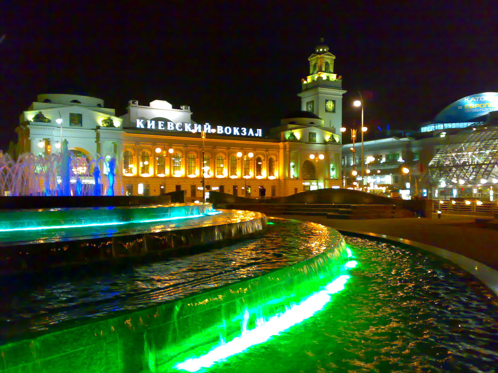 took this image using my mobile phine, on September 27, 2008. Night view of Square of Europe, Moscow, Russia, with a fountain in the close-up and Kievsky Rail Terminal in the background.